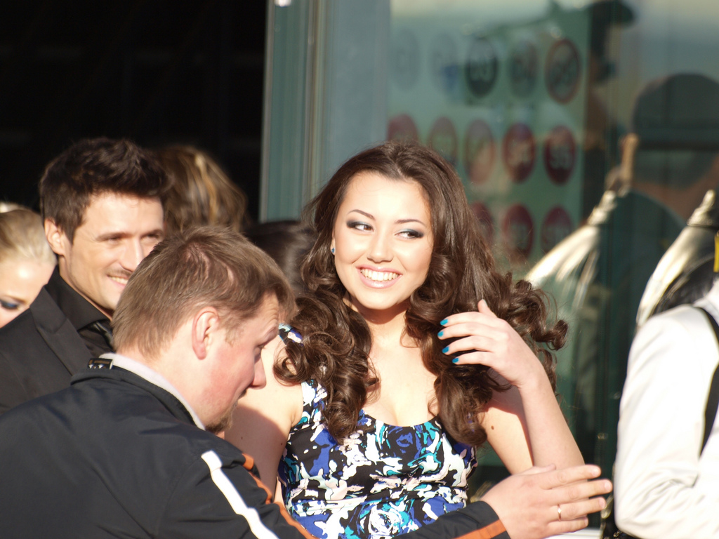 Azerbaijani singer Safura Alizadeh at the Eurovision final, May 29, 2010.